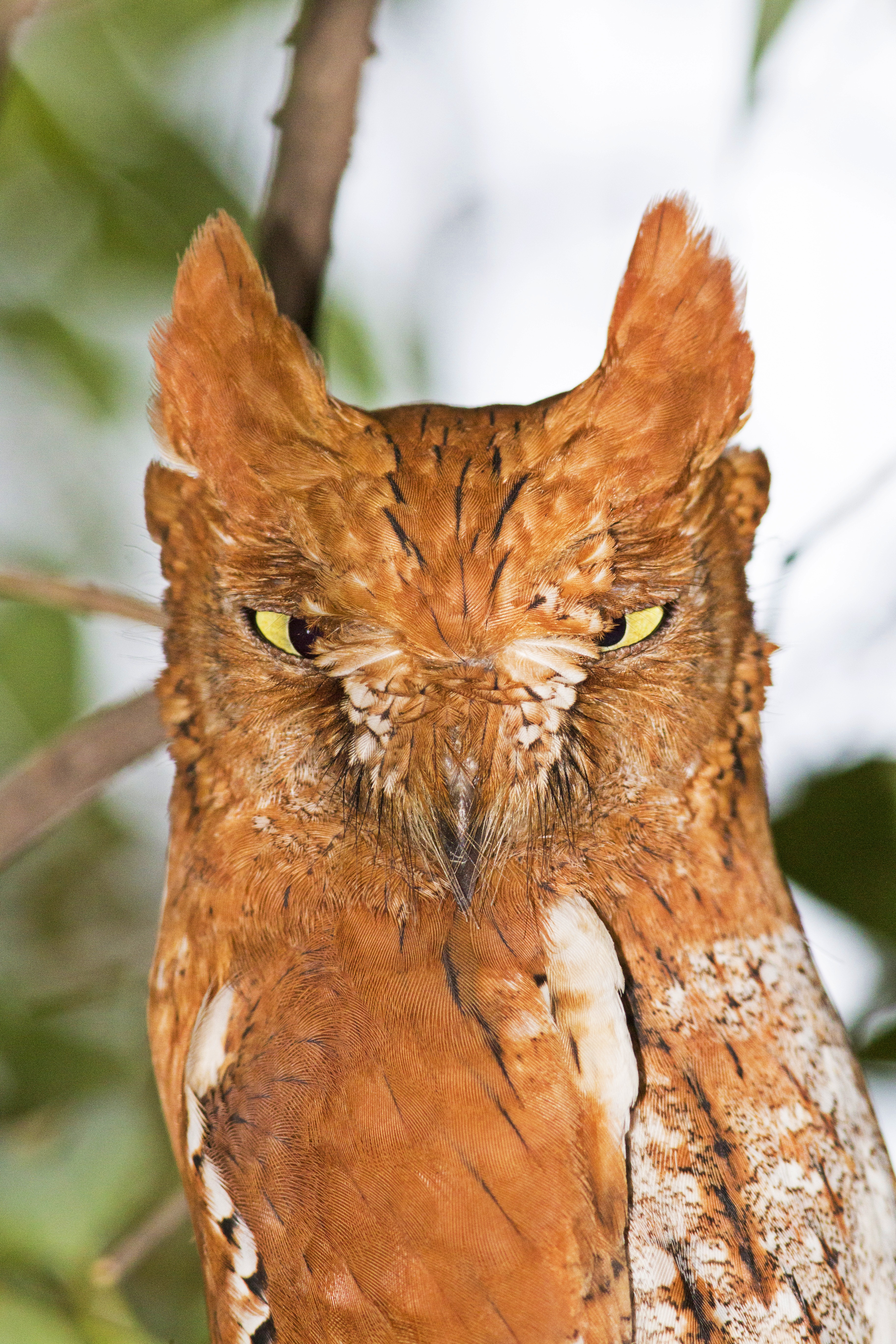 Photographed it in Gandhinagar, Gujarat, India in February 2016. Oriental scops owls are resident in South Gujarat but are local winter migrants in North Gujarat